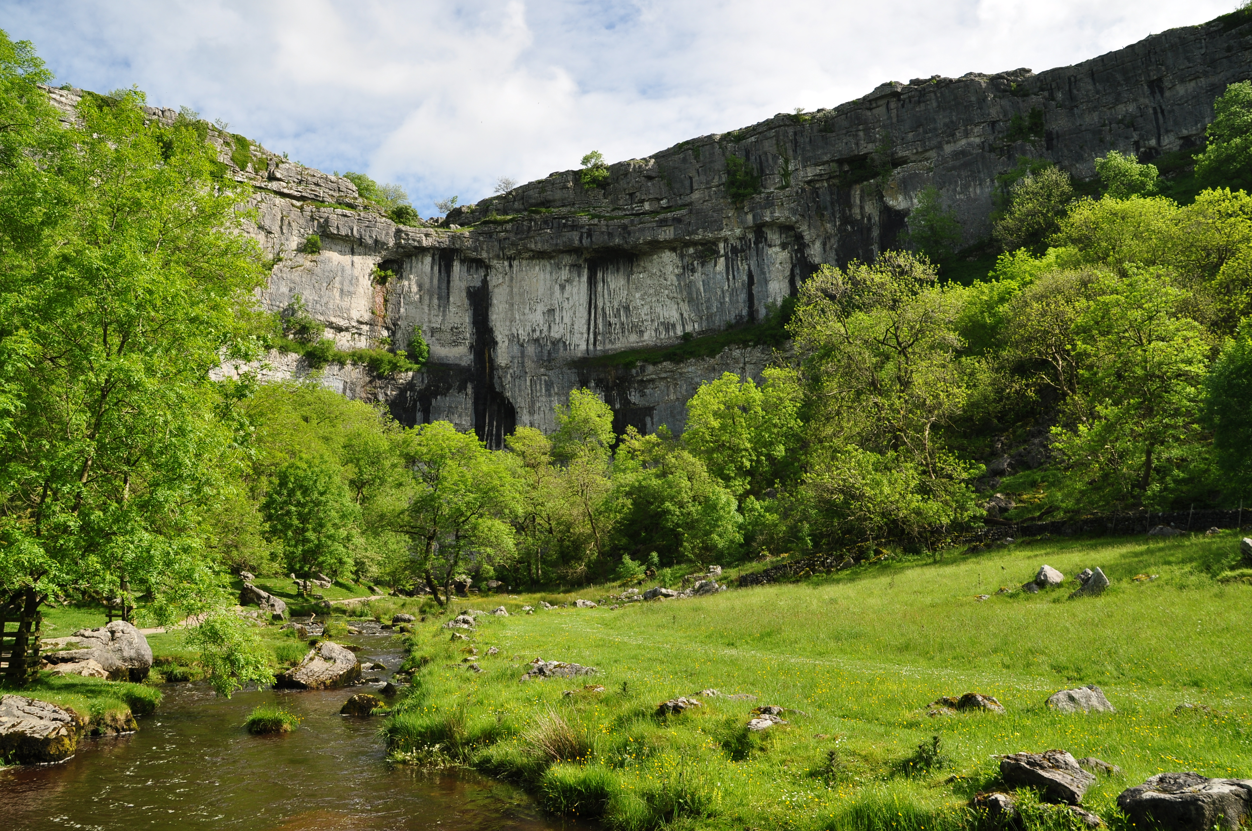 Malham Cove